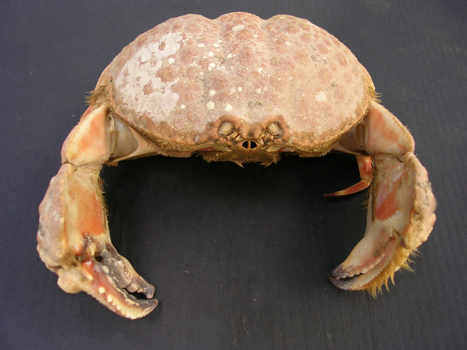 Dorsal view of a rough box crab. From Juan Venado Island Natural Reserve, Nicaragua